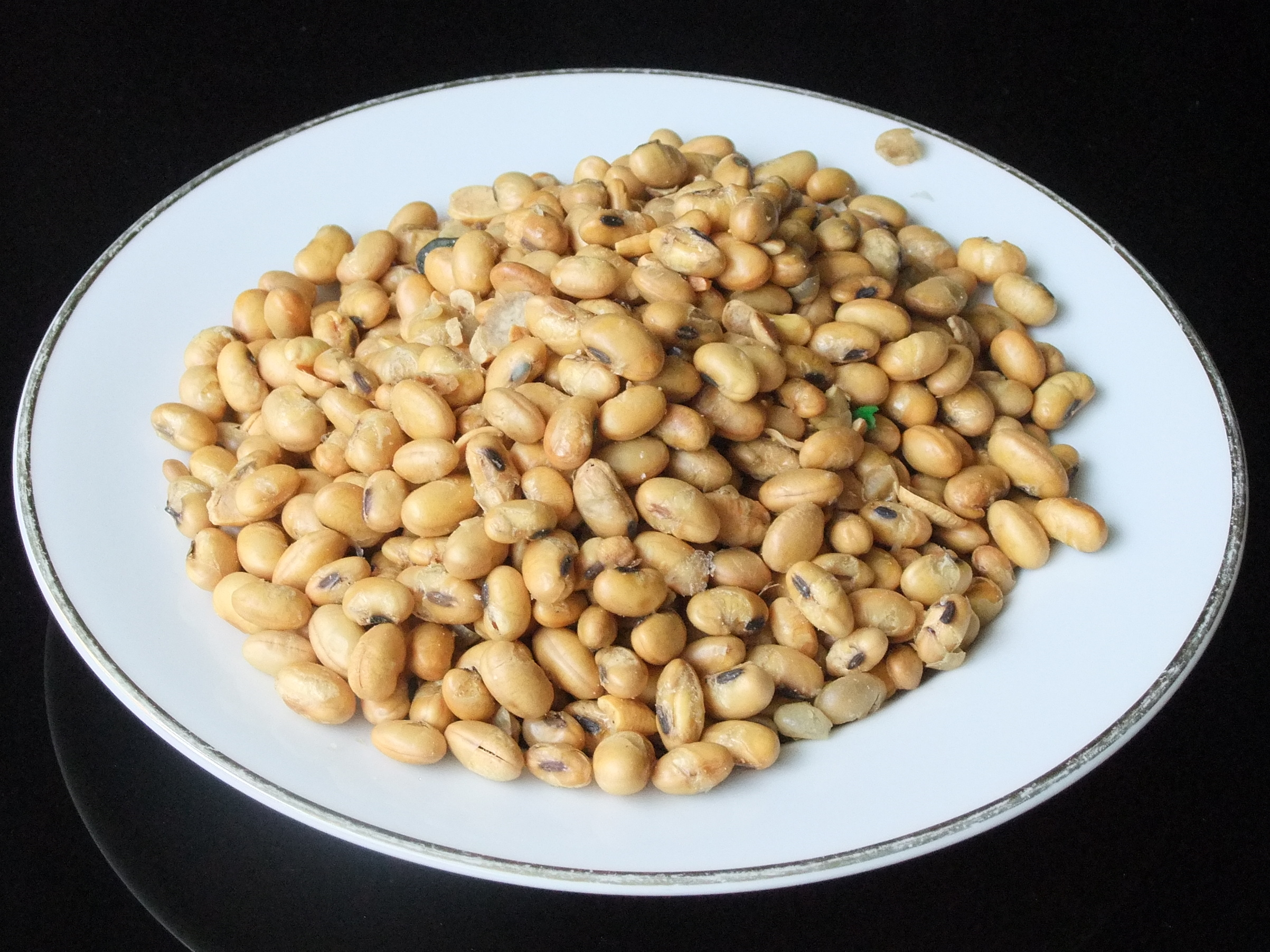 Soy bean snack